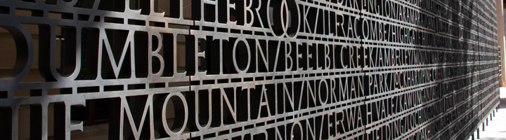 Custom Typography for Anzac Square (2018–2019)